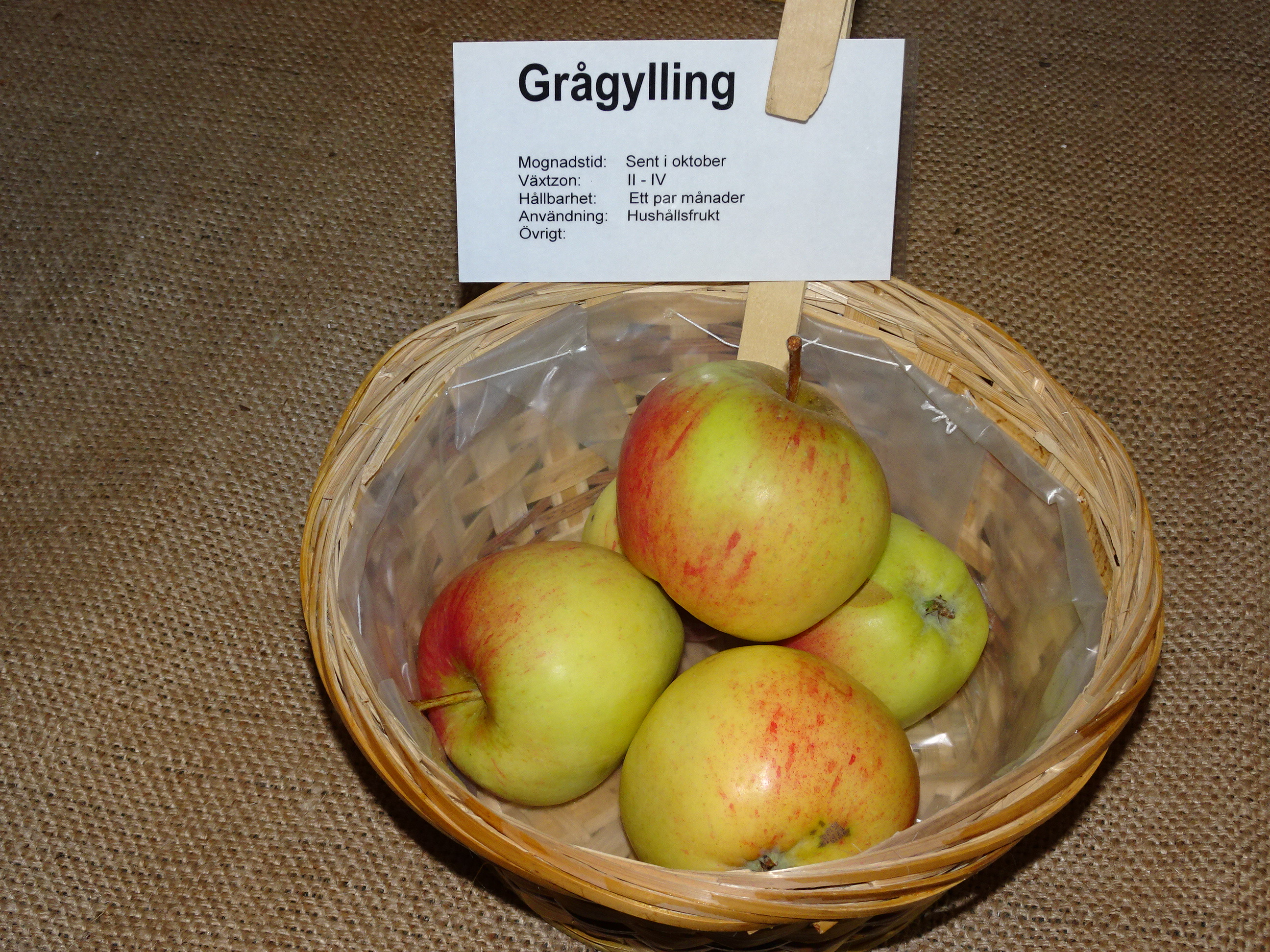 Grågylling, an apple cultivar, displayed at Vallby Friluftsmuseum, Västerås, Sweden.